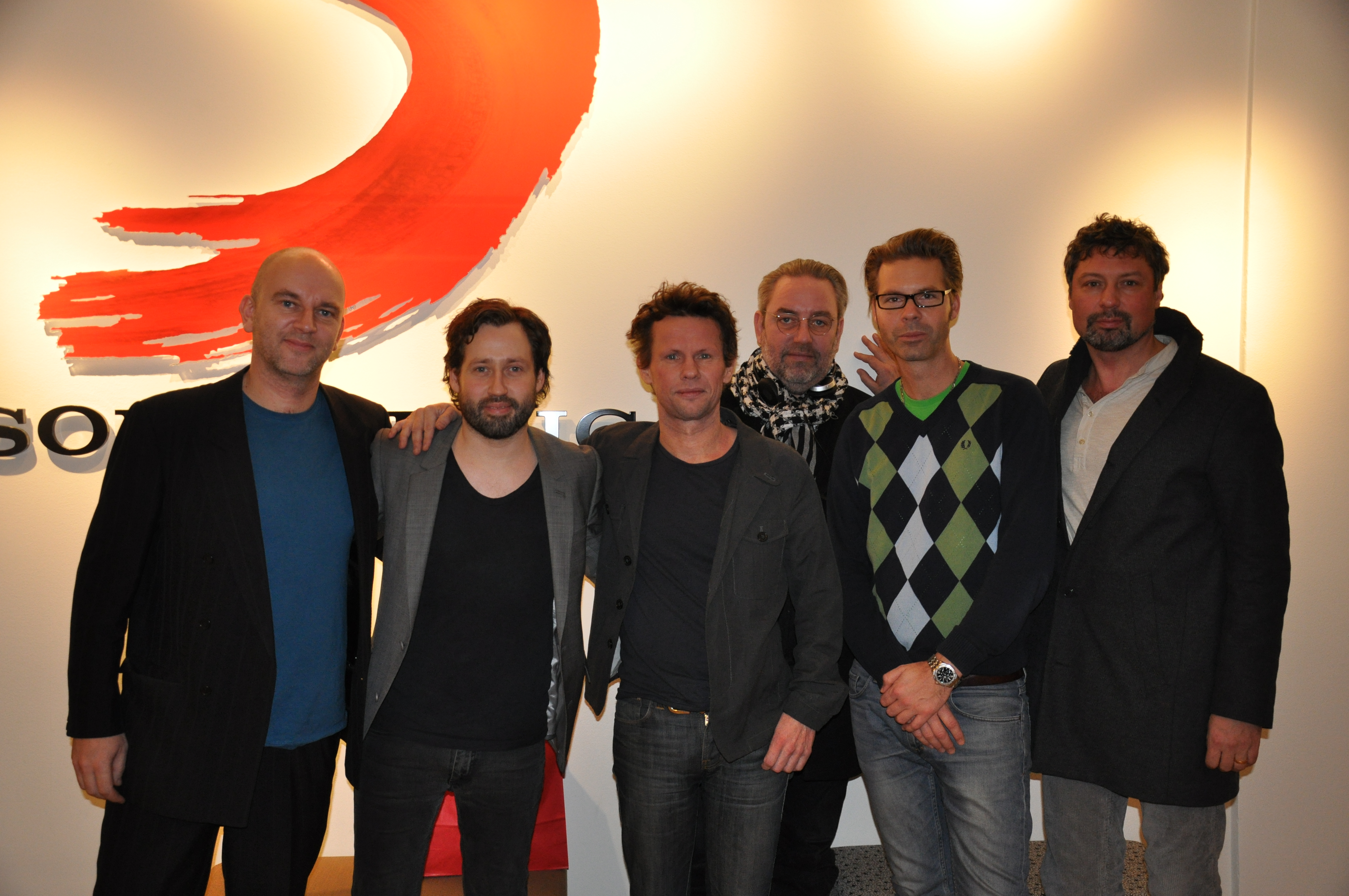 Bo Kaspers orkester in 2011